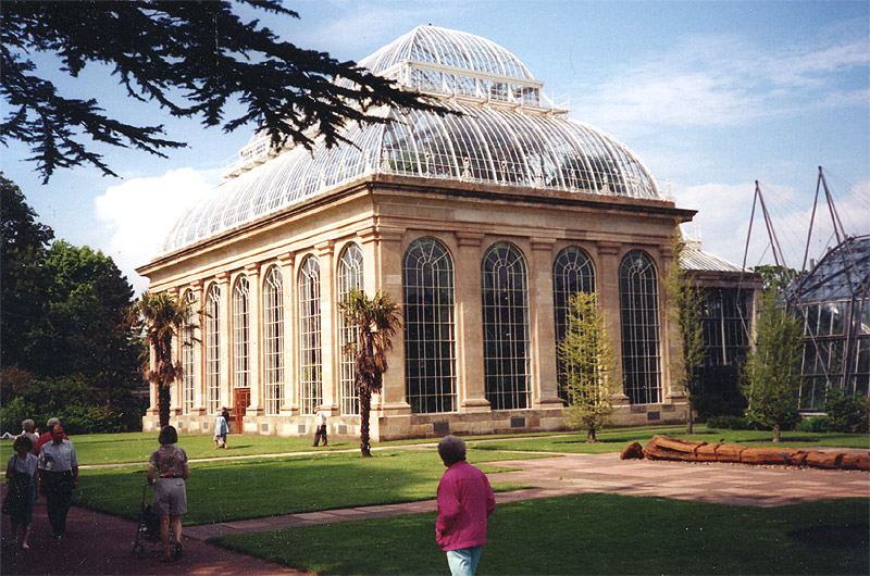 My own photo taken in June 1993